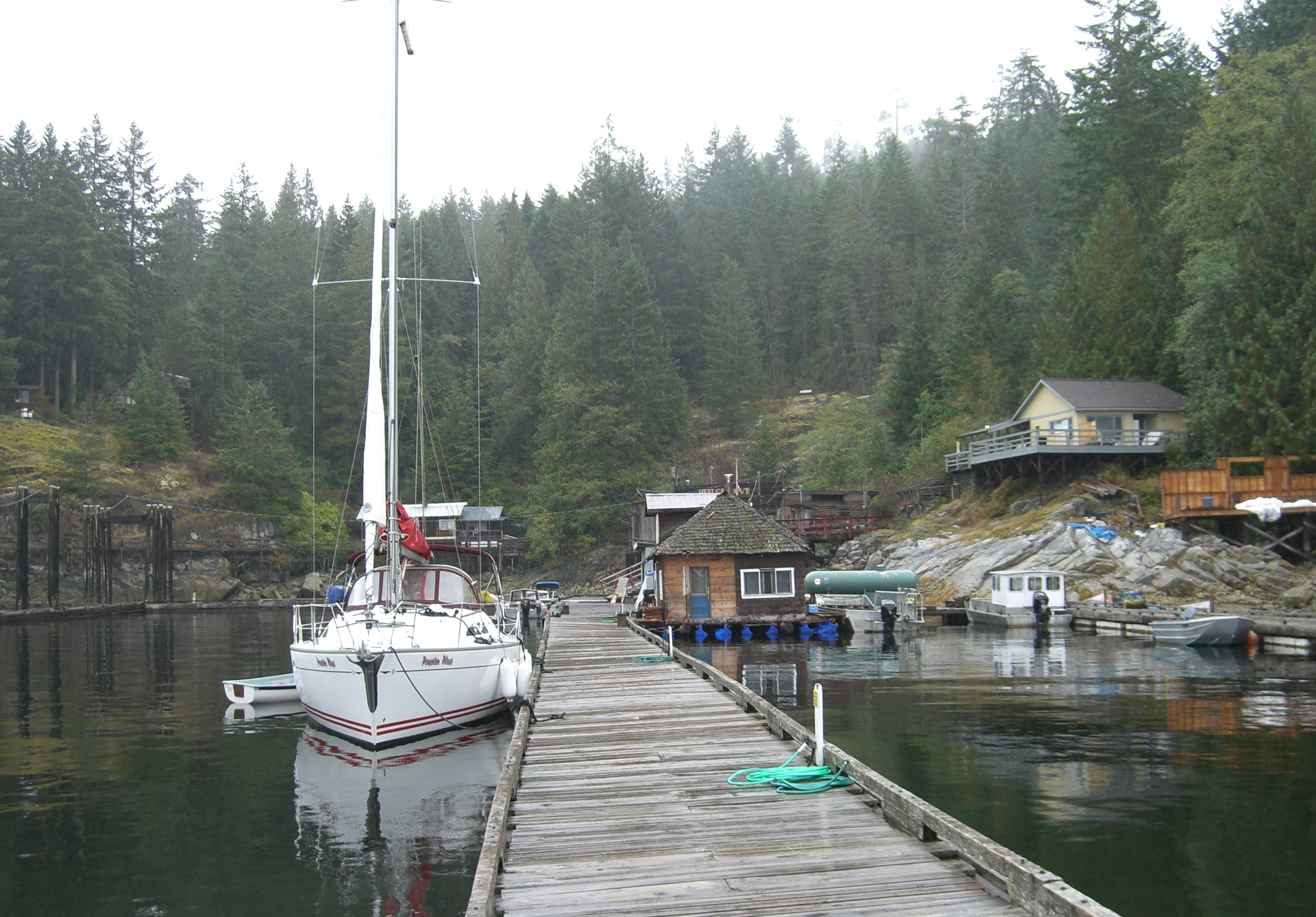 Refuge Cove at south end of West Redonda Island in the Discovery Islands of British Columbia Refuge Cove government dock is on southwestern tip of West Redonda Island, British Columbia, Canada on Lewis Channel at N 50°07' 25.75", W 124° 50' 23.54'.